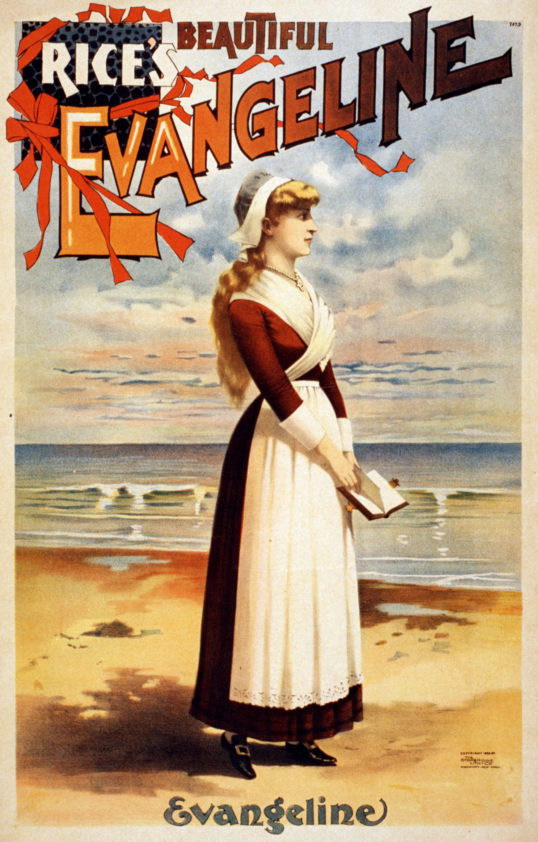 Rice's Beautiful Evangeline. Poster for the play by Edward E. Rice. Lithograph by , 1896. From the Performing Arts Poster Collection at the Library of Congress More Strobridge posters | More performing arts posters [PD] This picture is in the public domain